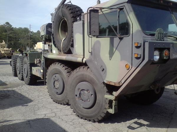 1160th Tranportation Co